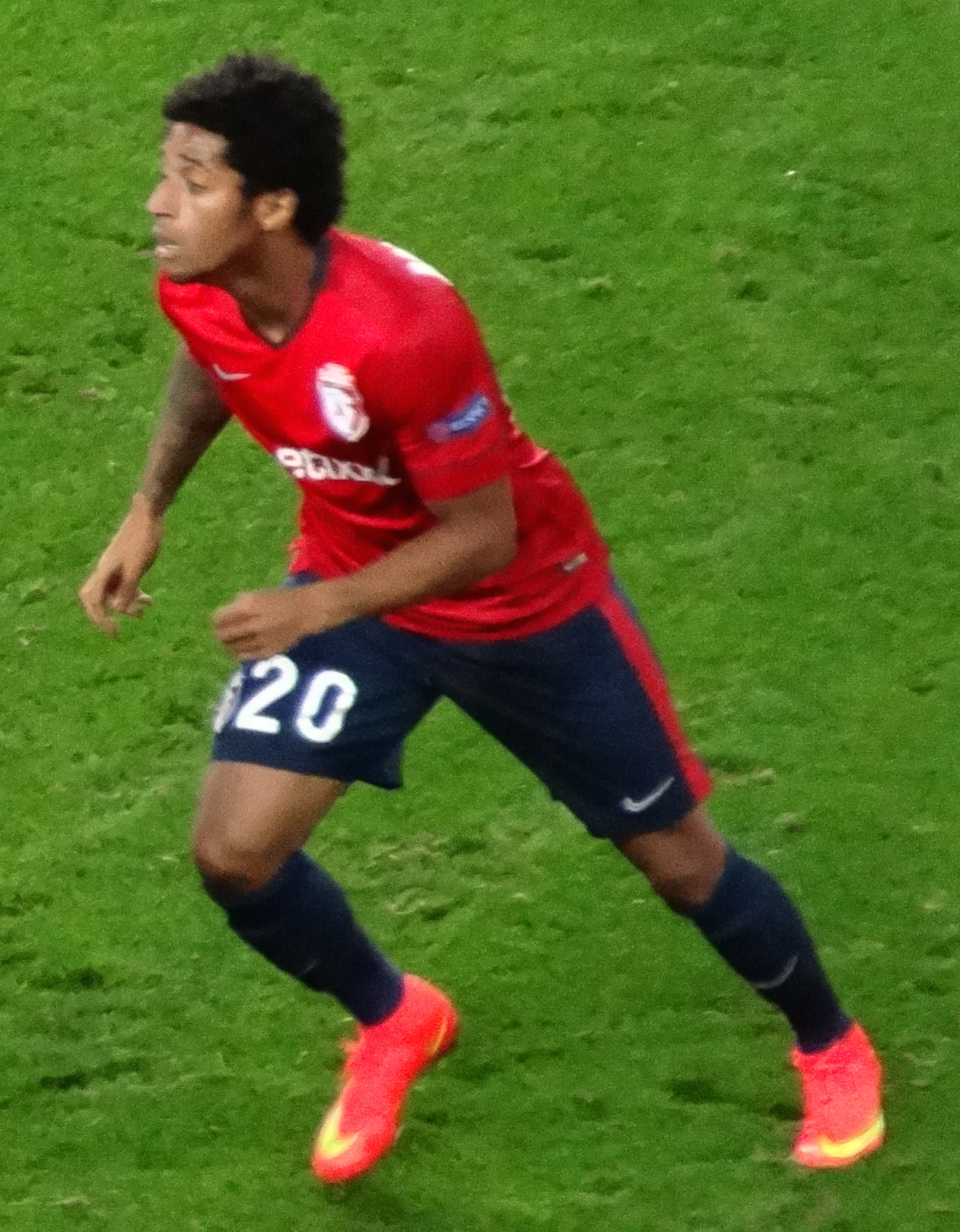 Ryan Mendes (LOSC Lille)